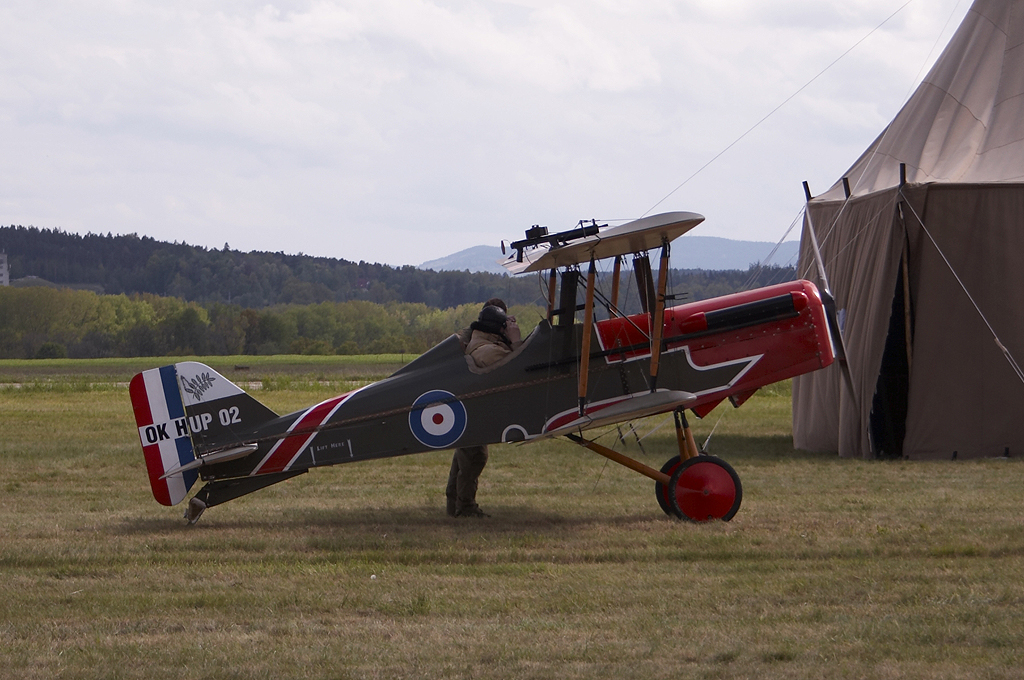 Replica of Royal Aircraft Factory S.E.5